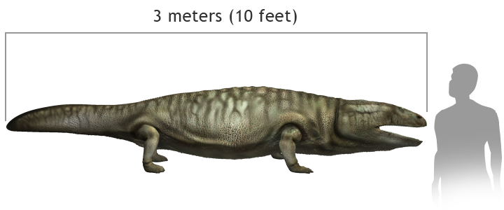 Metoposaurus size comparison with human, 3 meters (10 feet)